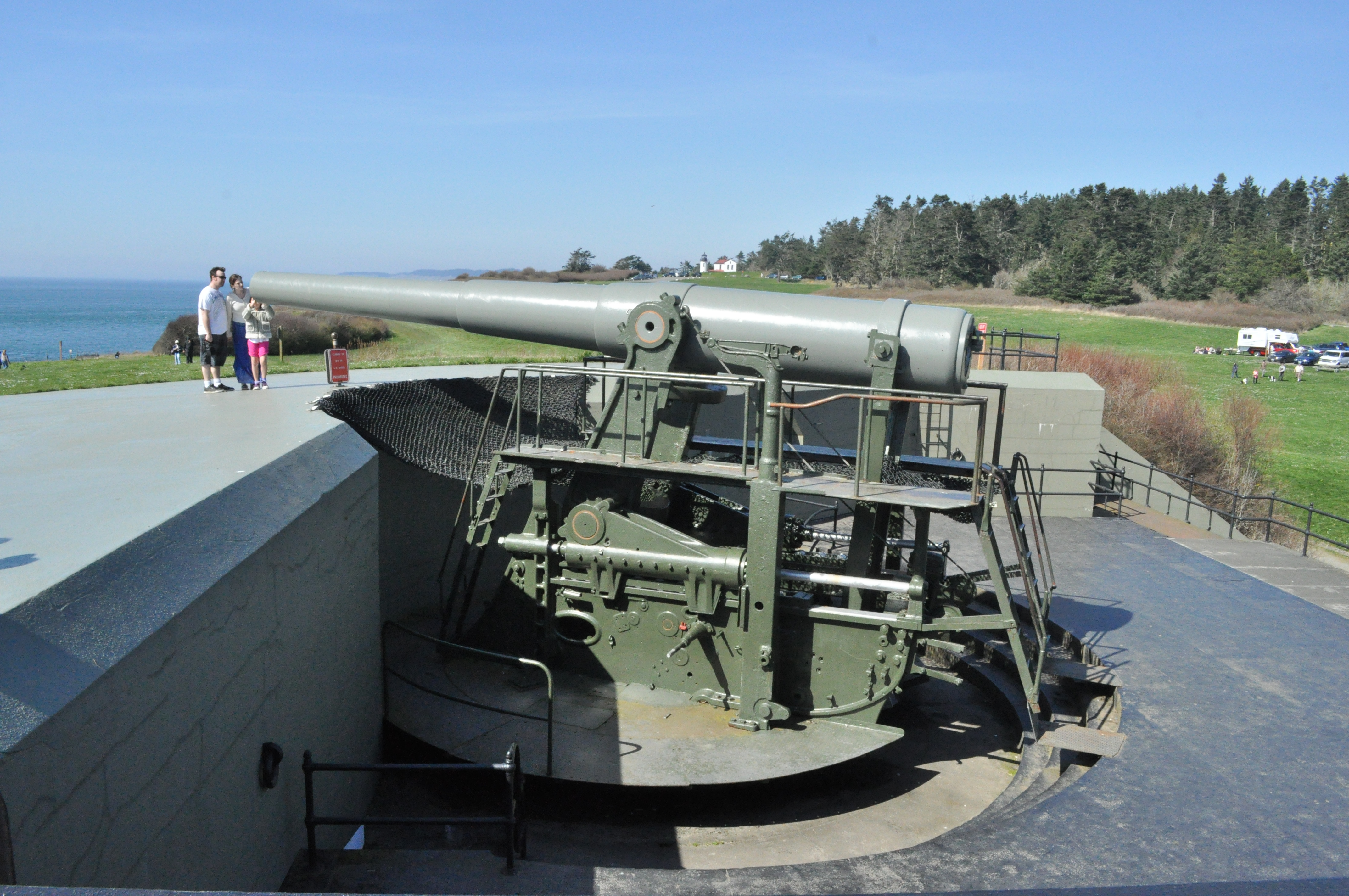 Fort Casey, Whidbey Island, Washington.